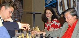 Peter Leko, Alisa Maric and Anatoly Karpov, Chess Days 1999 at Dortmund, press centre.